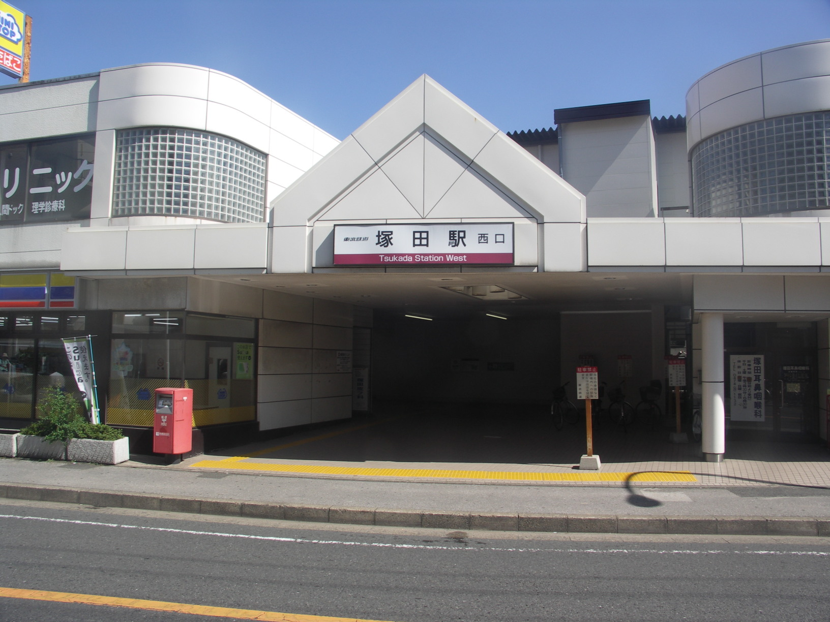 The west entrance to Tsukada Station on the Tobu Noda Line (present-day Tobu Urban Park Line) in Chiba Prefecture, Japan